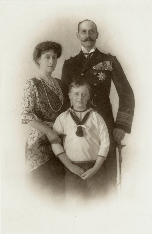 Queen Maud of Norway, king Haakon and Olav